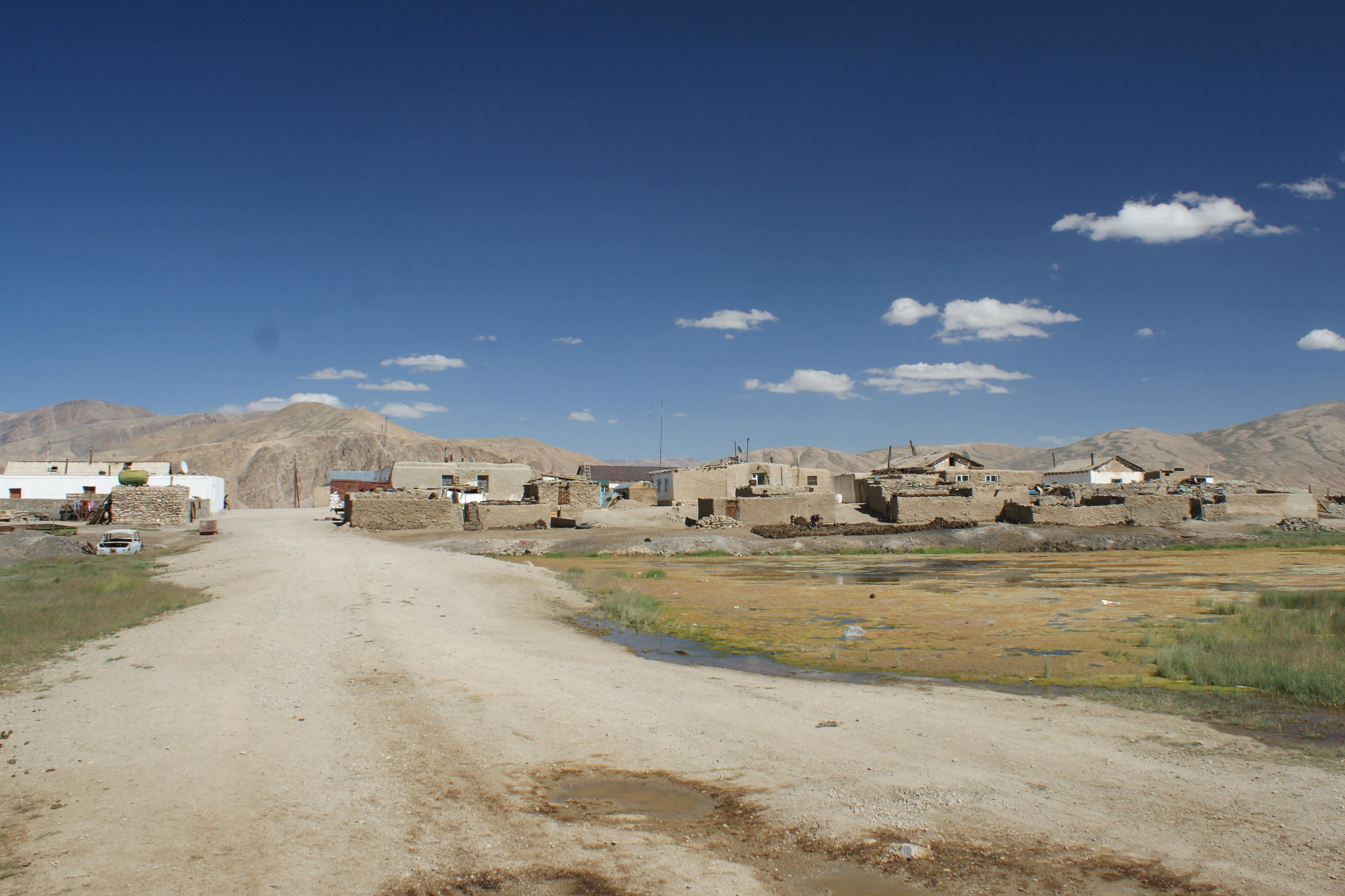 see geotag